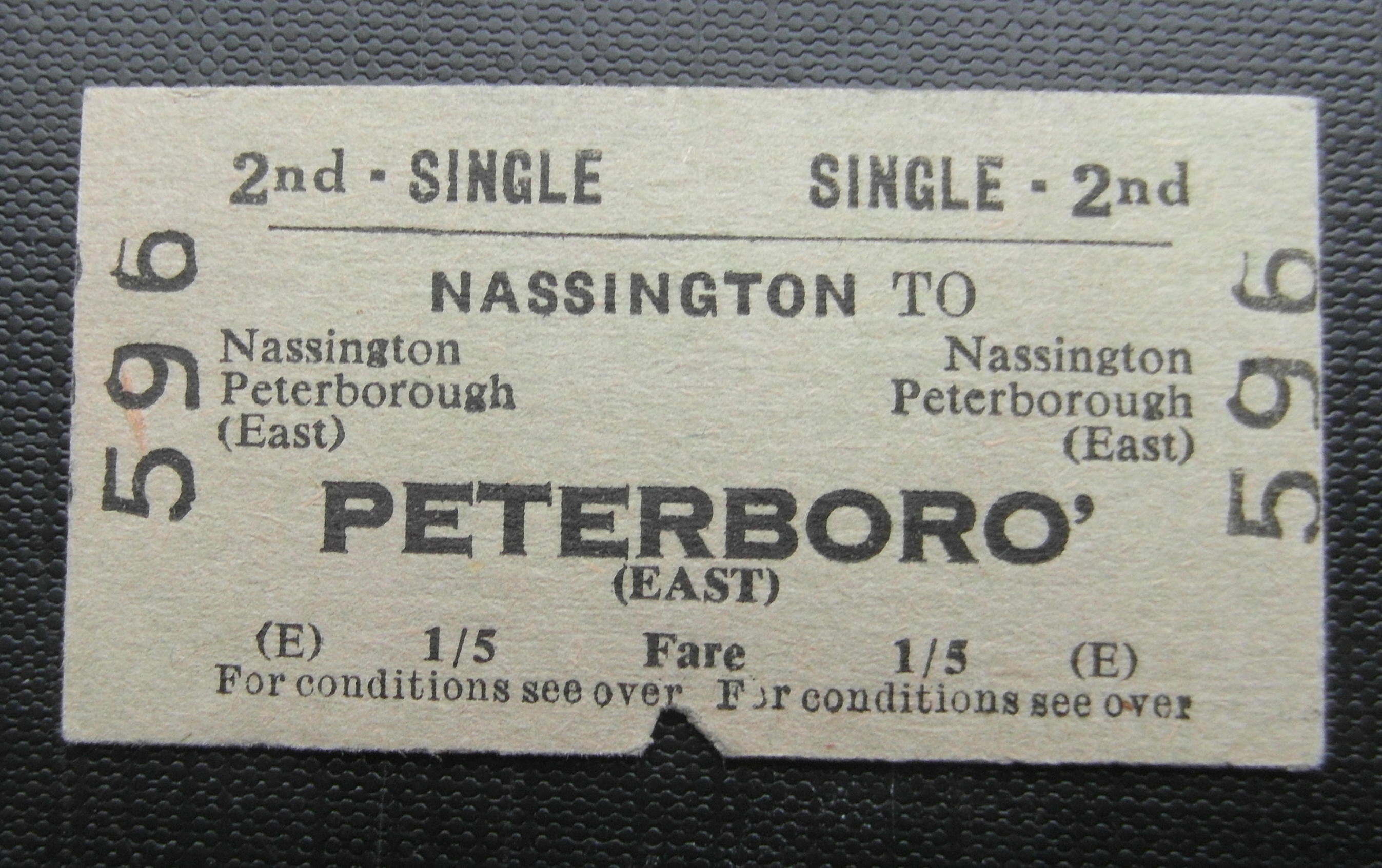 British Transport Commission ticket in use at Nassington station at the time of its closure in 1957